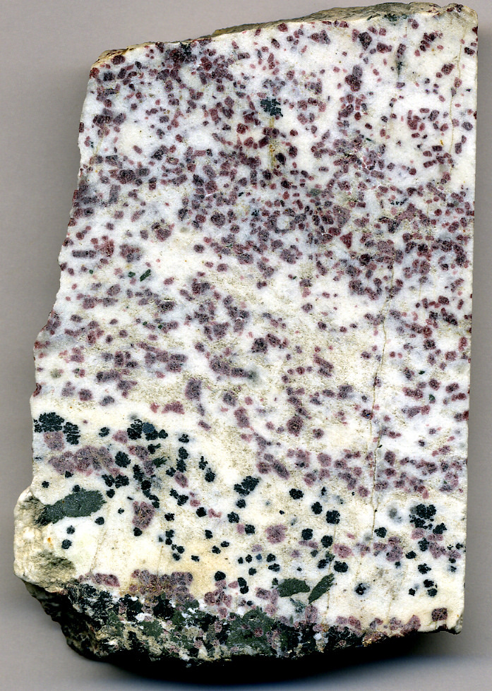 Kakortokite (cut surfaces; 9.5 cm tall) - magmatically layered kakortokite from Greenland’s Precambrian-aged Ilímaussaq Complex. White = nepheline Black = arfvedsonite amphibole Red = eudialyte Kakortokite is a rare intrusive igneous rock. The name is traditionally applied to eudialytic nepheline syenites found in southern Greenland. The attractive sample shown here principally contains three minerals: whitish nepheline ((Na,K)AlSiO4), blackish arfvedsonite amphibole (NaNa2((Fe+2)4Fe+3)Si8O22(OH)2), and reddish eudialyte (Na4(Ca,Ce)2(Fe,Mn,Y)ZrSi8O22(OH,Cl)2). Notice that the amphibole and the eudialyte show layering. Magmatic layering is expected to occur in the lower portions of old magma chambers, and this kakortokite sample is indeed from the floor rocks of an old igneous intrusion. Geologic unit: Ilímaussaq Intrusion (Ilímaussaq Complex; Ilímaussaq Alkaline Complex), an 8 x 17 km intrusion in the 1.12-1.35 b.y. Gardar Igneous Province, developed in a failed rift zone. Age: late Mesoproterozoic, 1.16 billion years. Locality: cliff outcrops on southern side of eastern end of Kangerdluarssaq Fjord (also spelled Kangerdluarsuk Fjord), far-southern Greenland.